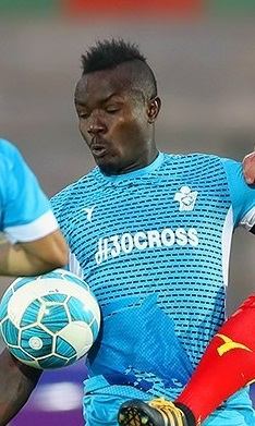 Godwin Mensha